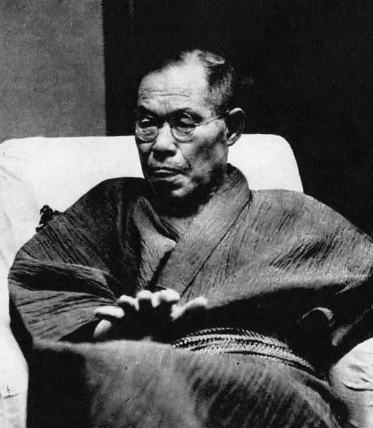 Mamoru Nagano (politician)